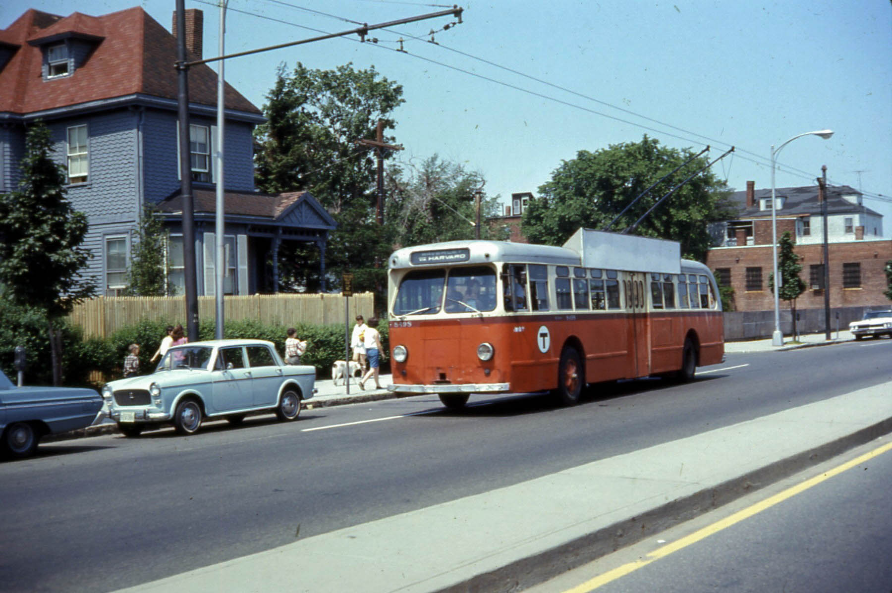 An inbound #77A run on its way to the Harvard tunnel in 1967. The bus will be through-routed to Waverley Square, as indicated by its rollsign.